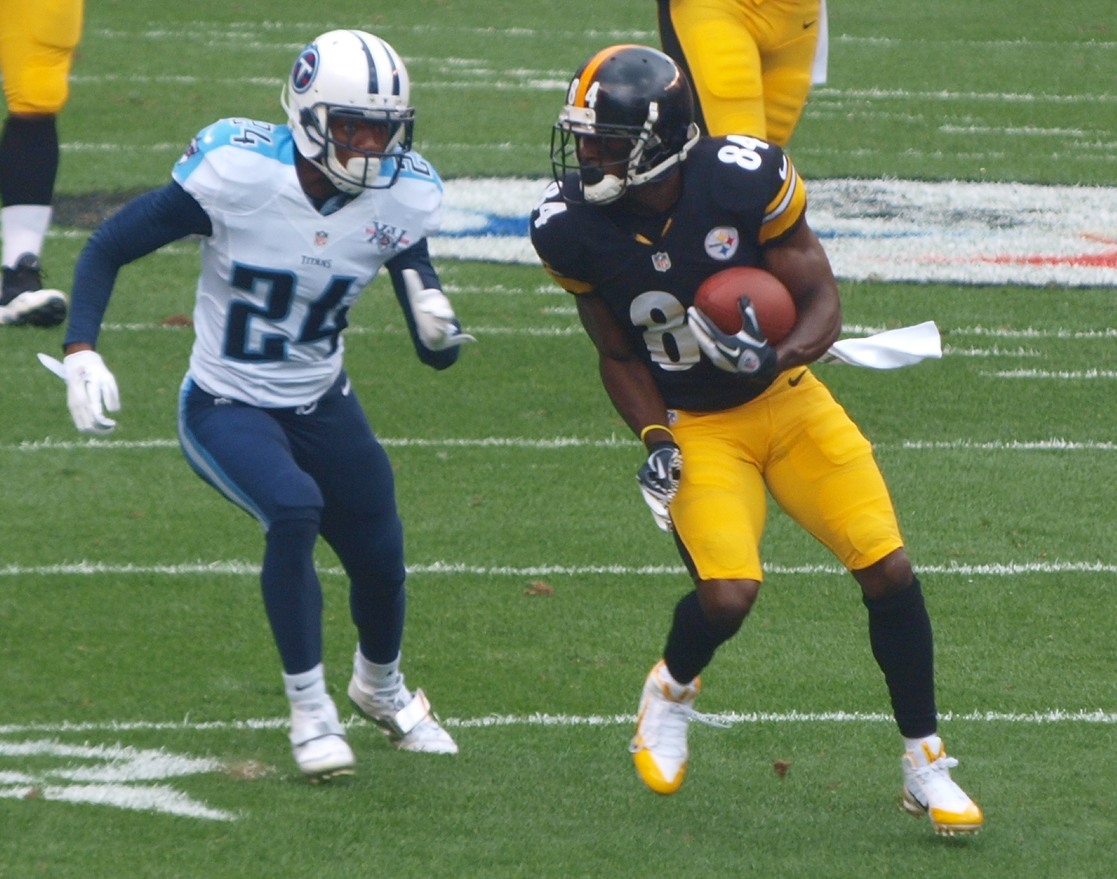 Tennessee Titans cornerback, Coty Sensabaugh, pursuing Pittsburgh Steelers wide receiver, Antonio Brown, in a 2013 game.